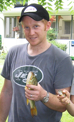 Andrew Miller with the day's largest fish, landed after a 14 hour battle at sea